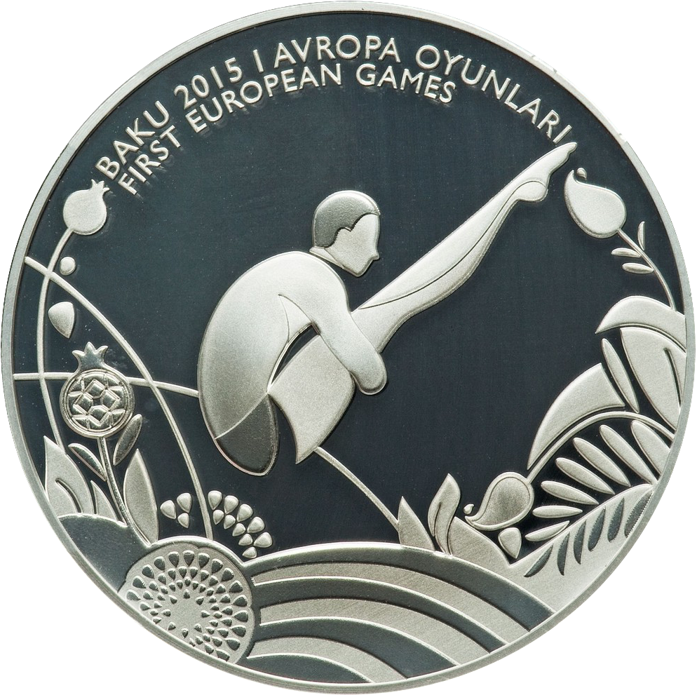 Commemorative coin of Azerbaijan